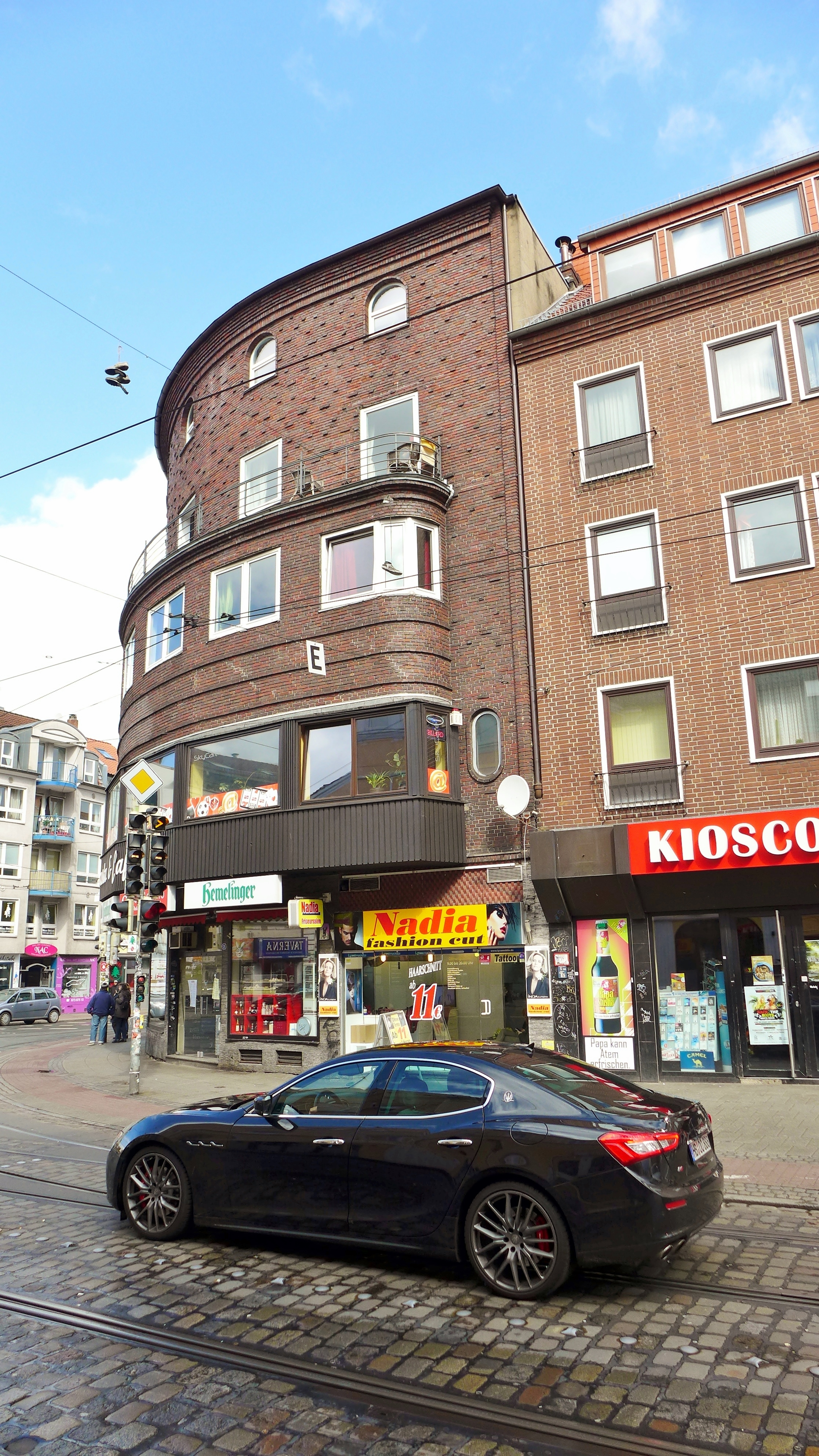 View of Vor dem Steintor, Bremen, Germany